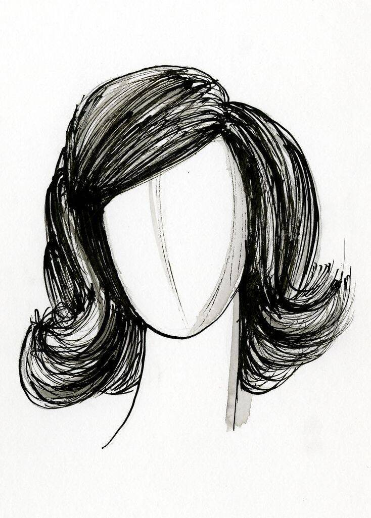 The description of the concept in this drawing is: Head coverings of artificial hair knotted into a shaped net foundation. (AAT)